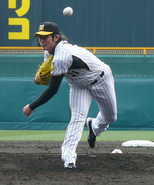 HT-Minoru-Iwata20110310